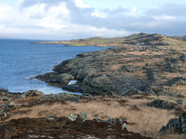 Iainland - along Rubha na Cille